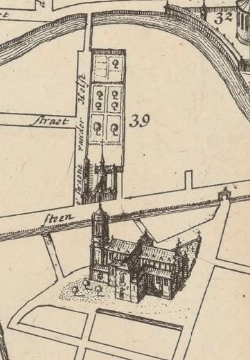 Detail of 1695 map by J. Laboureur & Josse van der Baren, Bruxella, nobilissima Brabantiæ civitas